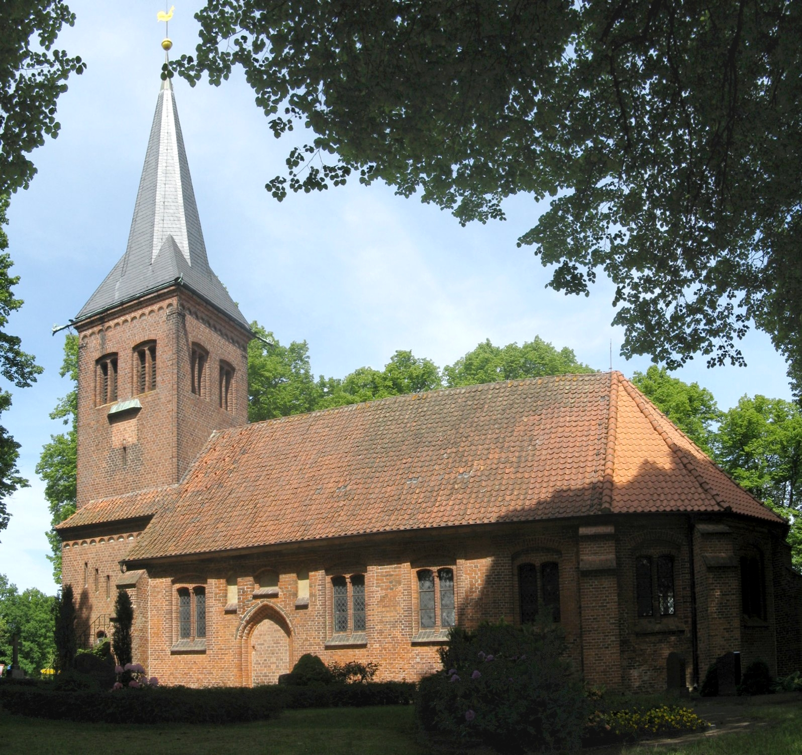 Church in Nostorf, Mecklenburg-Vorpommern, Germany